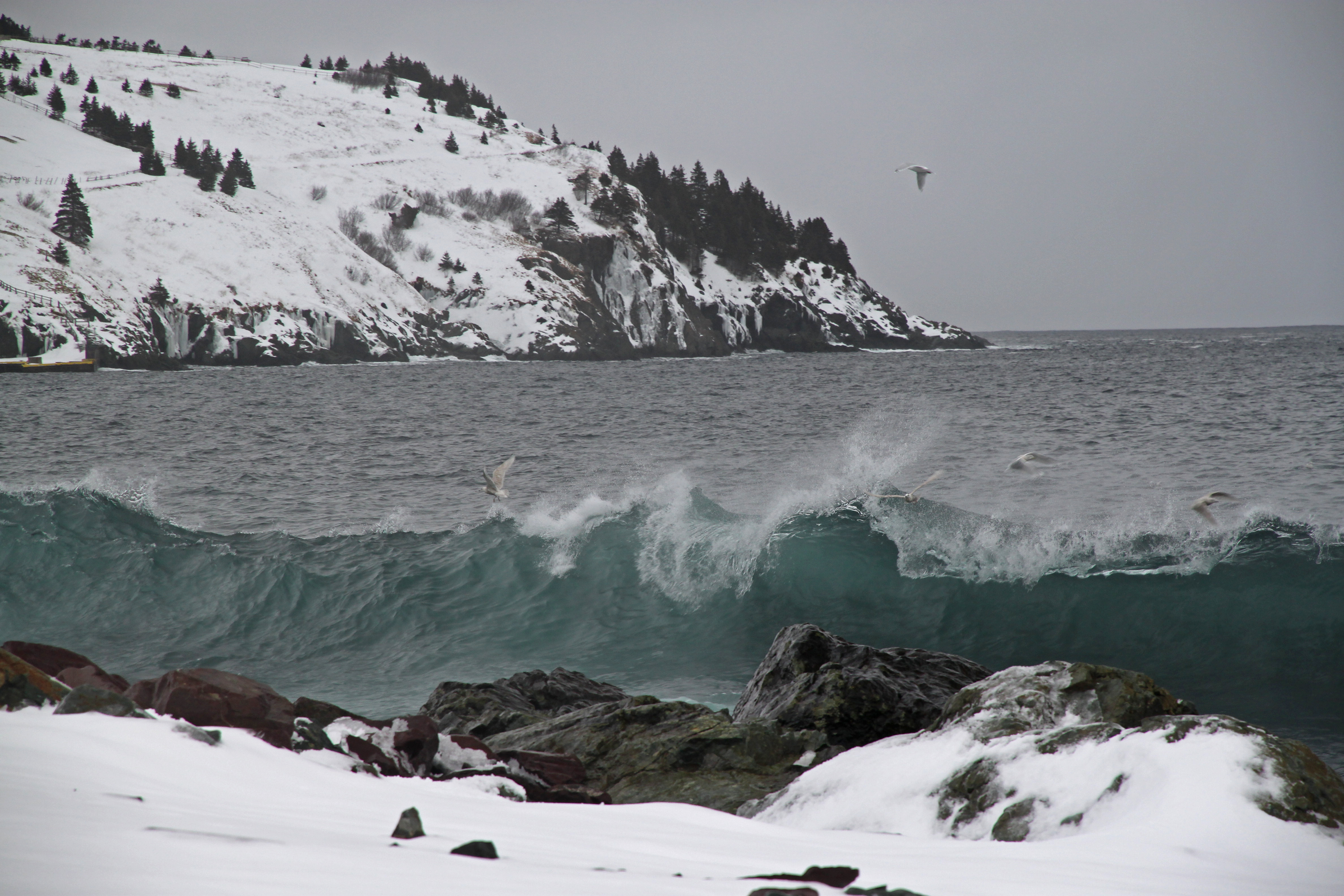 NEWFOUNDLAND & MARITIME CANADA